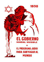 Protocols of the Elders of Zion, Spain, 1930